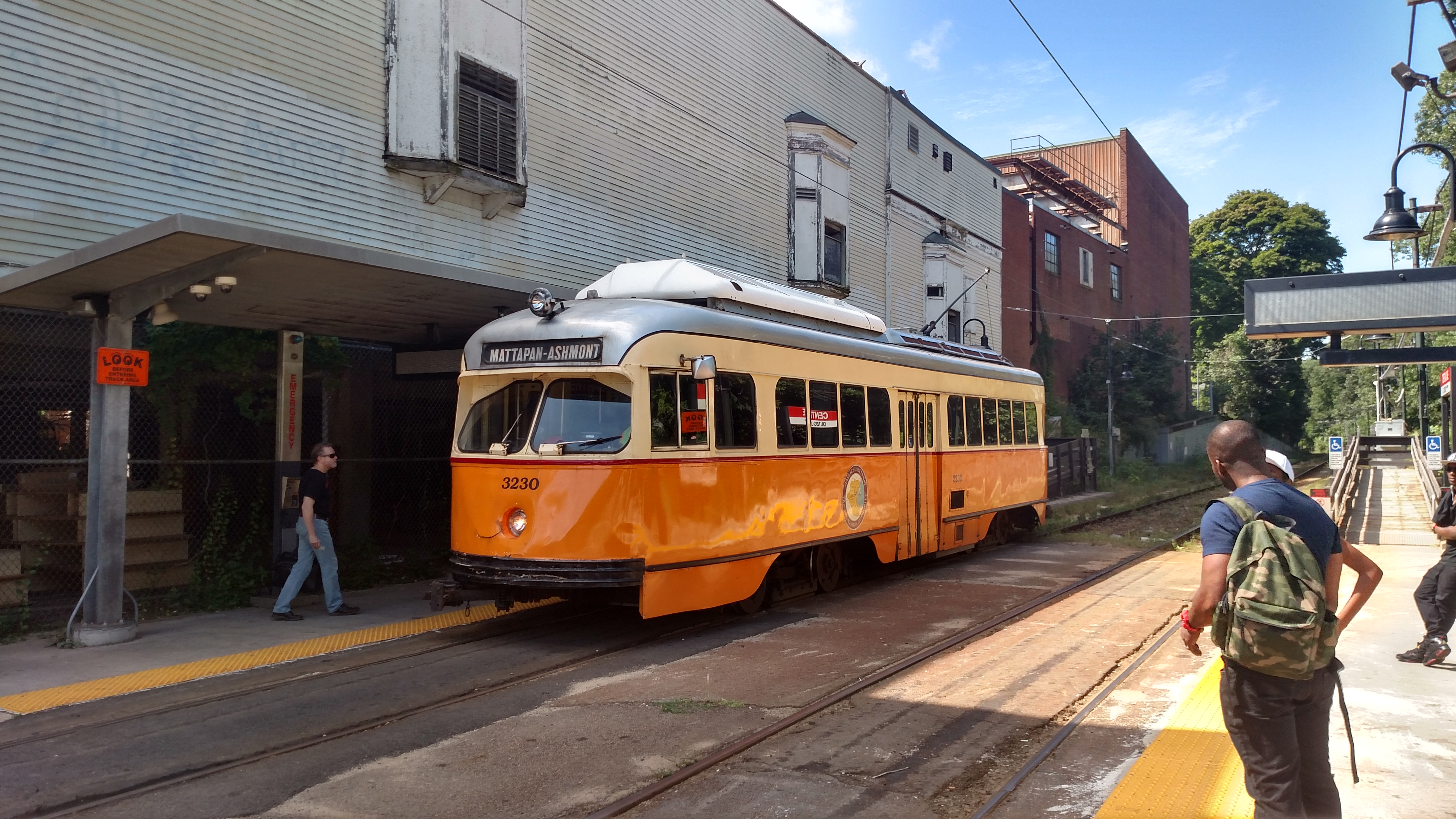 An inbound streetcar at Central Avenue station in August 2018